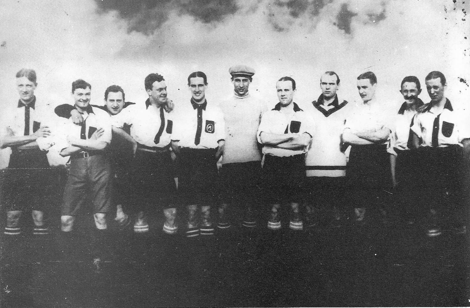 The 1912 Quilmes AC team which won the first championship in club's history.